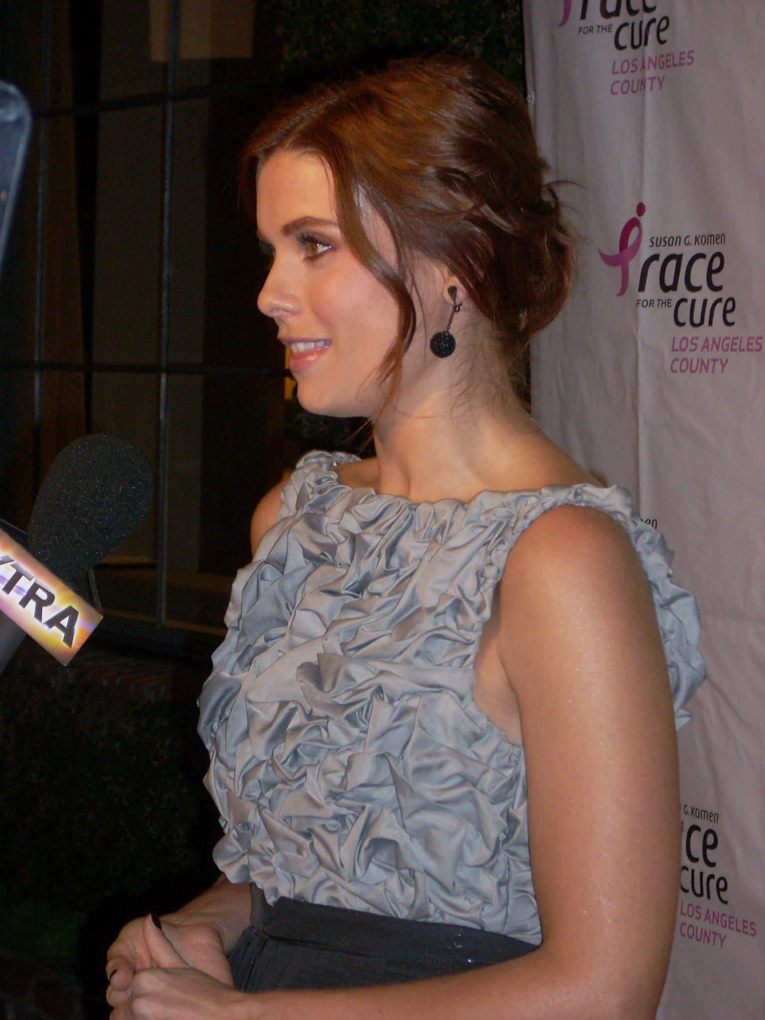 Joanna Garcia in Susan G. Komen Fundraiser at Mulberry, Melrose Place, Los Angeles Hosted by "Privileged" Star Joanna Garcia - Oct. 21, 2008